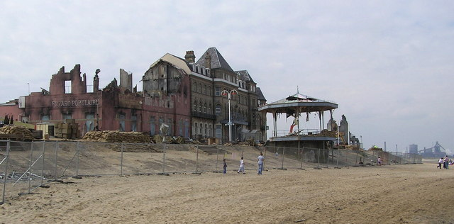 Redcar Transformed : Dunkirk. Part of Redcar seafront transformed into wartime Dunkirk, for the film 'Atonement'.